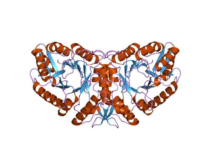 Cartoon representation of the molecular structure of protein registered with 1m41 code.